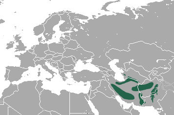 Afghan Pika (Ochotona rufescens) range, with national borders added